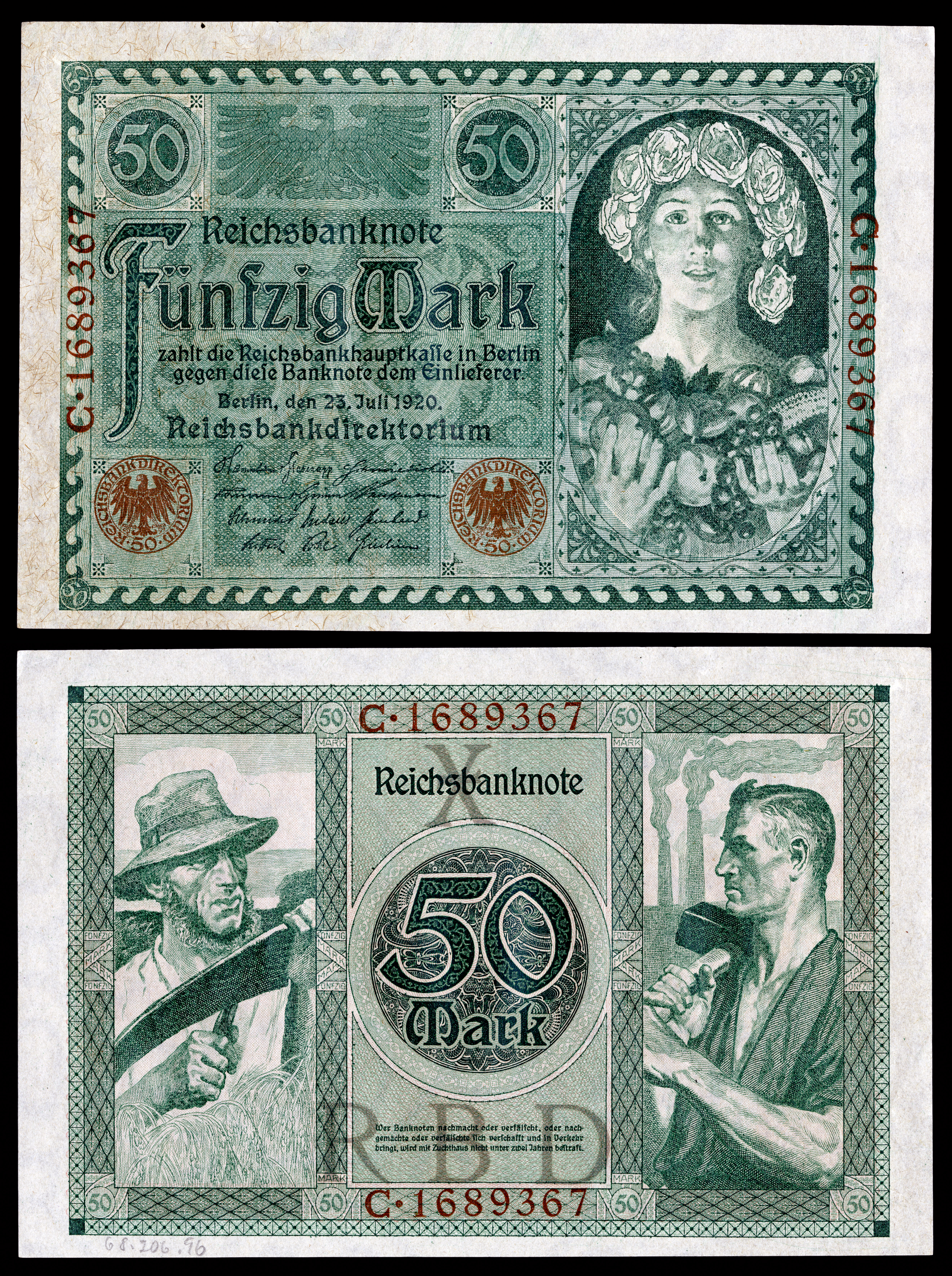 German Papiermark of the Weimar Republic, post World War I hyperinflation era (1921–24).